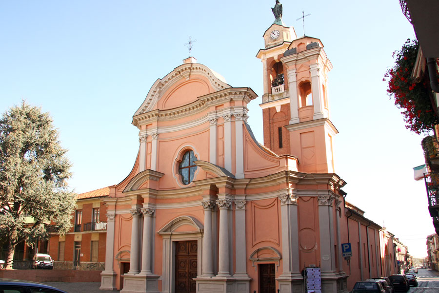 Parish church, Canale, Cuneo, Italy